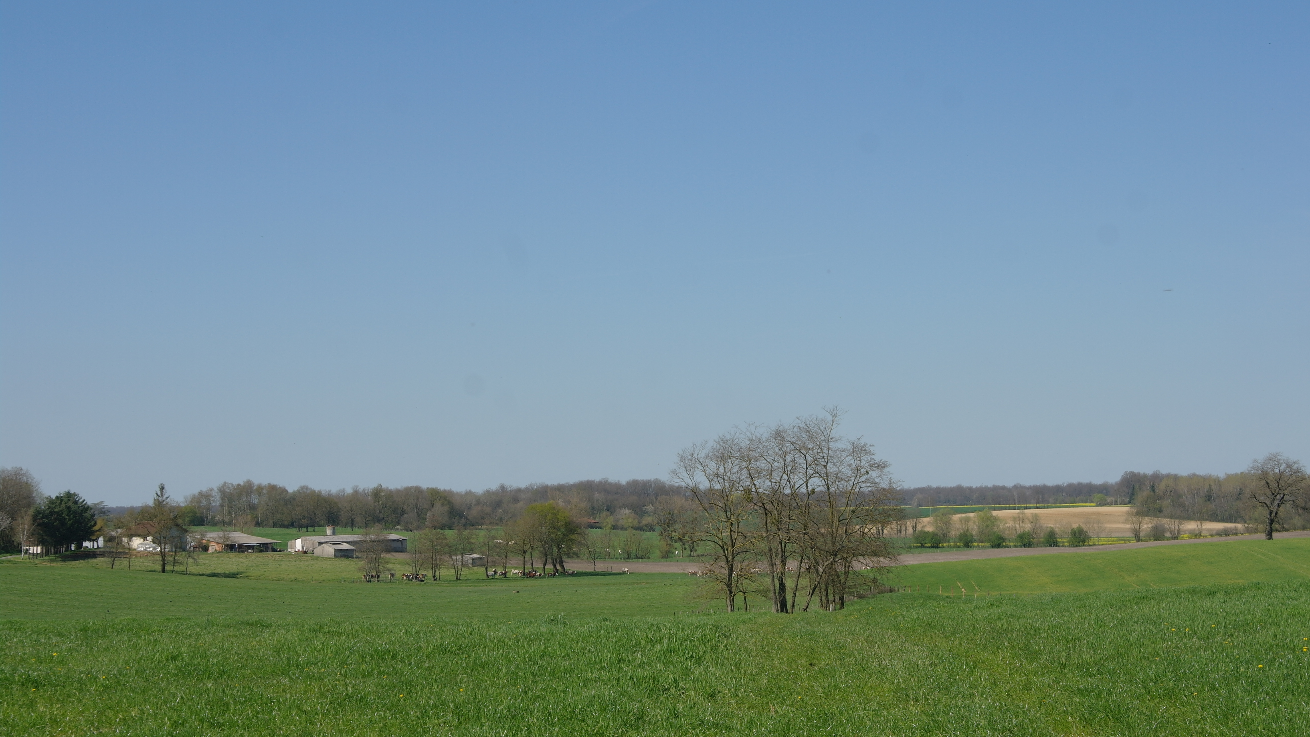 Landscape of Varennes-Saint-Sauveur (France, Burgundy). In the background, on the left, the hamlet of "Moulin de Labergement".